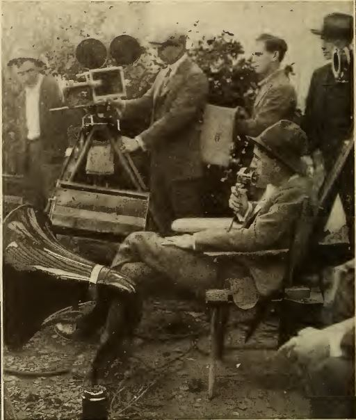 Willam C. de Mille (sometimes spelled DeMille) directing a film using a "Magna Vox" amplification device. Photograph on page 74 of the February 1921 Photoplay magazine.